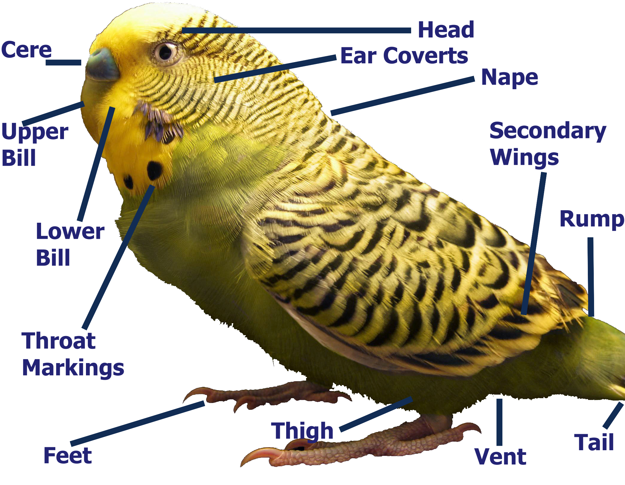 Image of a parakeet with bodyparts labeled